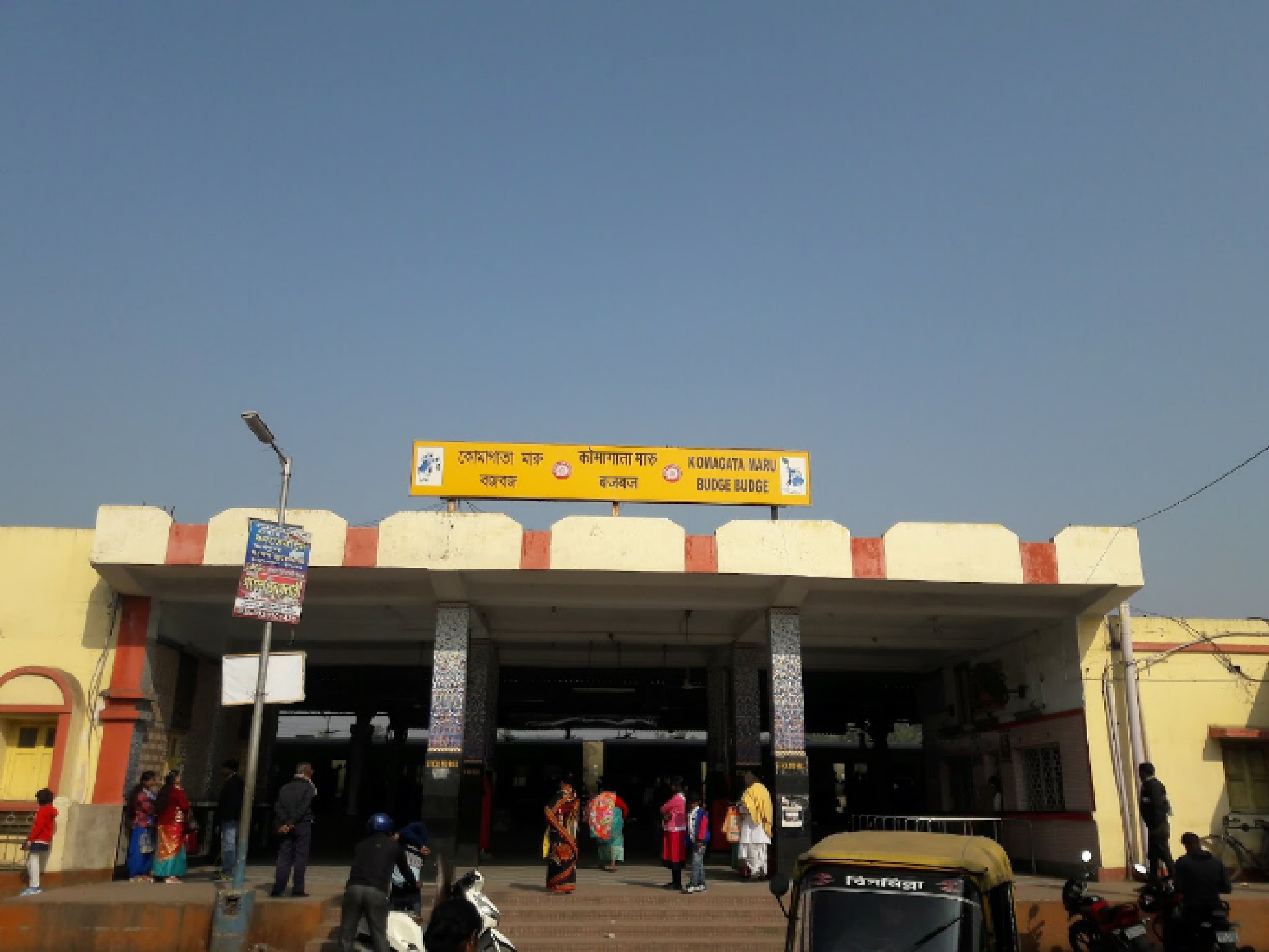 Budge Budge railway station